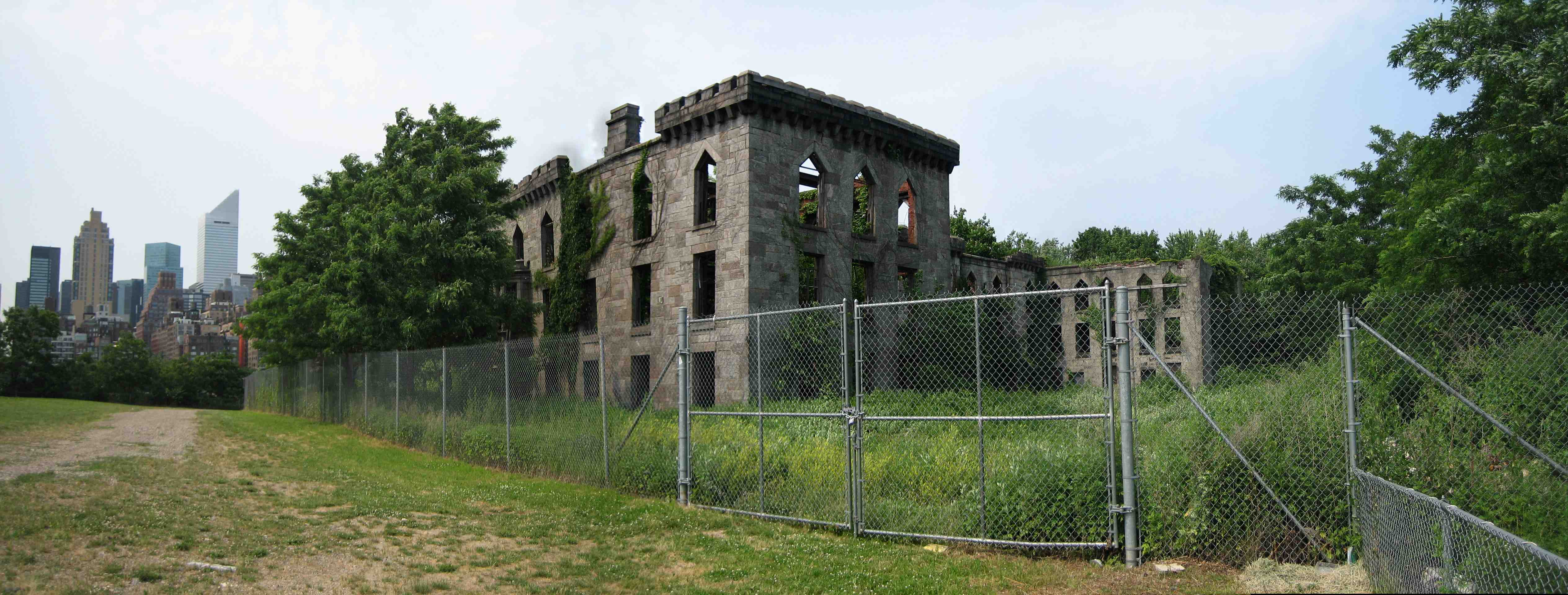 This is a panoramic photo of the ruined smallpox hospital located on the southern tip of Roosevelt Island. The camera is facing northwest. Photograph by (Skemez1 (talk) 10:28, 31 December 2007 (UTC))